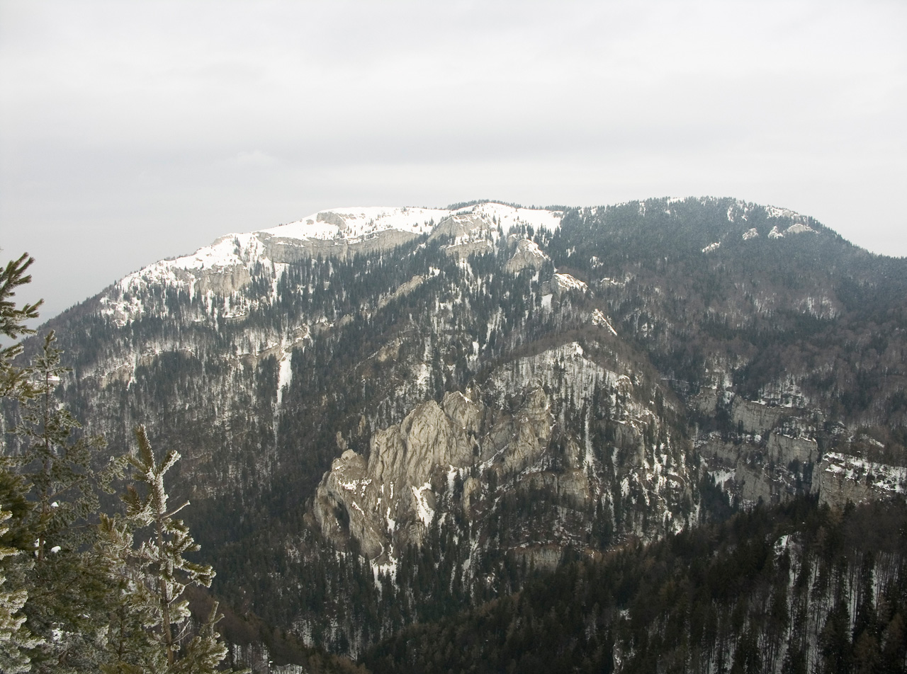 View at Tlstá Mountain from the opposite Ostrá mountain, Greater Fatra range, Slovakia